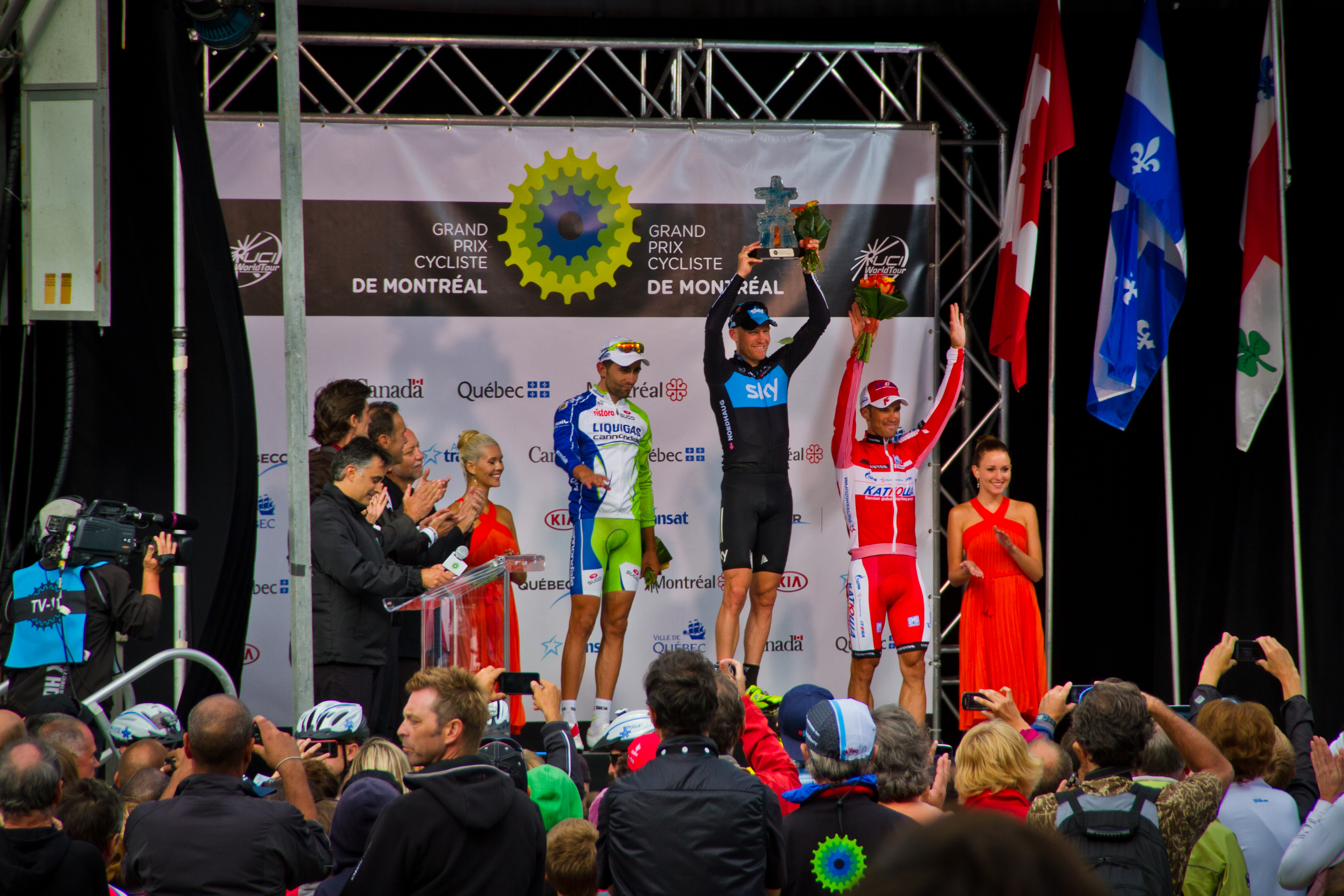 In first place; Norway's Lars Petter Nordhaug of Sky. Second; Italy's Moreno Moser of Liquigas. Third; Russia's Alexandr Kolobnev of Katusha.Grand Prix Cycliste de Montréal, GPCQM, 2012.